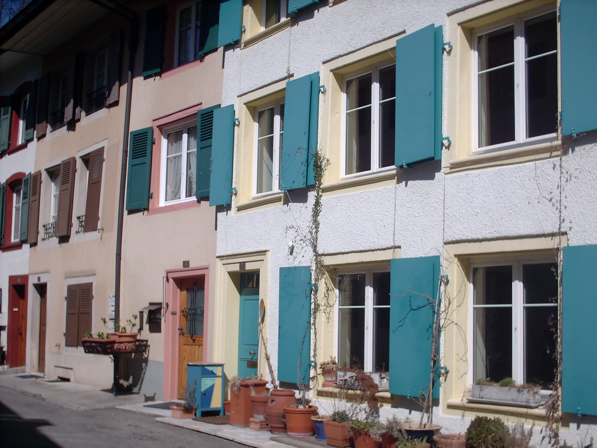 Pictures from the old town of Waldenburg, Switzerland